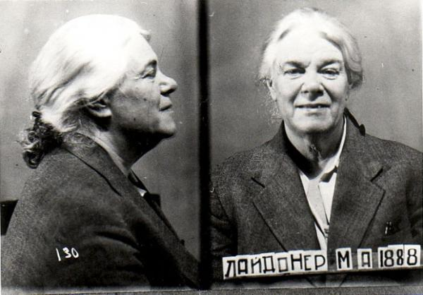 Maria Laidoner (1888-1978) wife of Johan Laidoner (1884-1953) – Estonian military, Commander-in-chief of the Estonian Army in 1918–1920, 1924–1925, and 1934–1940. In 1940 arrested by Soviet NKVD, with his husband, imprisoned , released 1956.